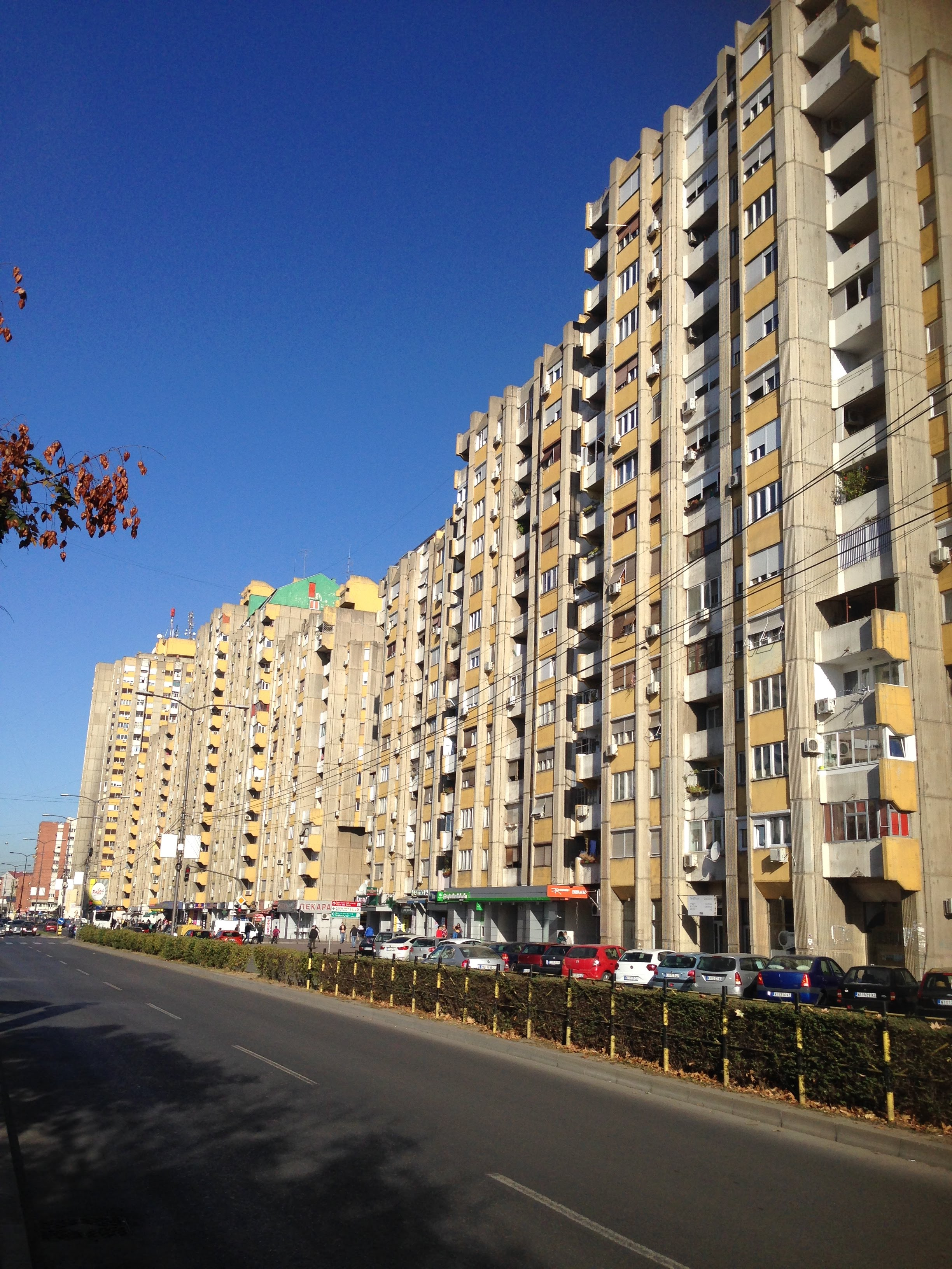 Boulevard dr Zorana Đinđića